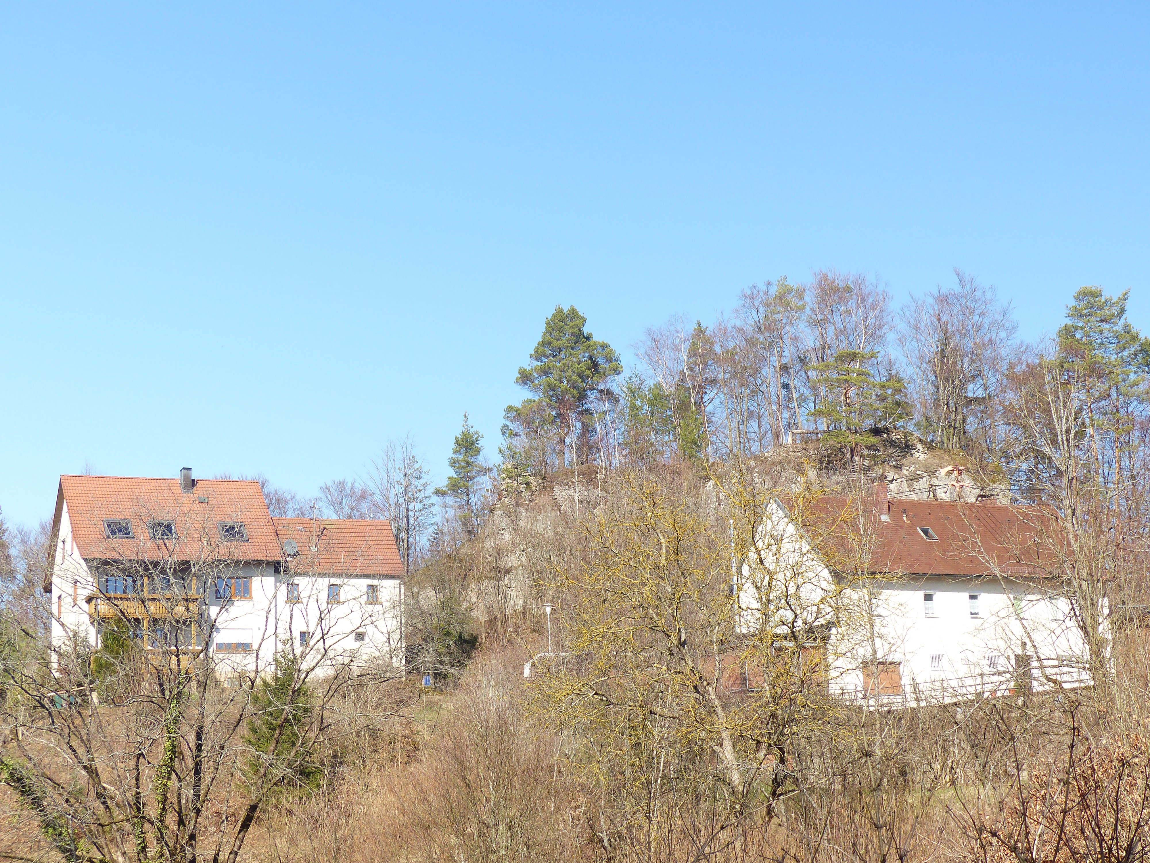 The hamlet Hauseck, part of the municipality of Etzelwang